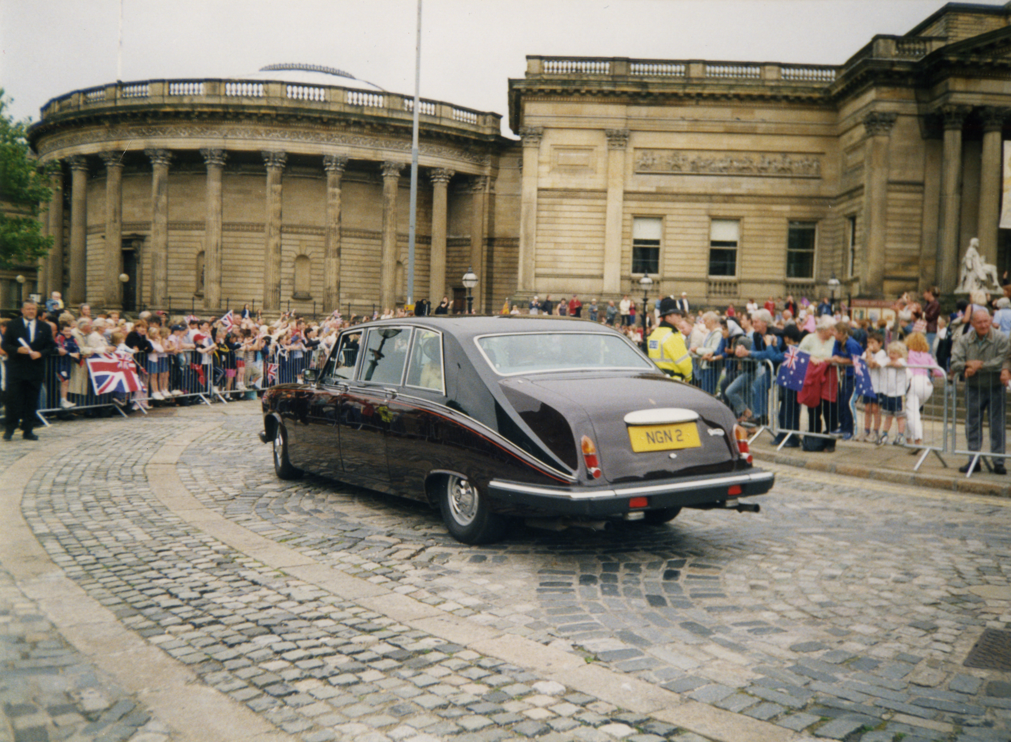 The Queen and the Duke of Edinburgh visit Liverpool. Photo originally taken on 35mm film camera sometime in the late 1990s, near the Walker Art Gallery on William Brown Street. Digitally scanned on 15th July 2010.